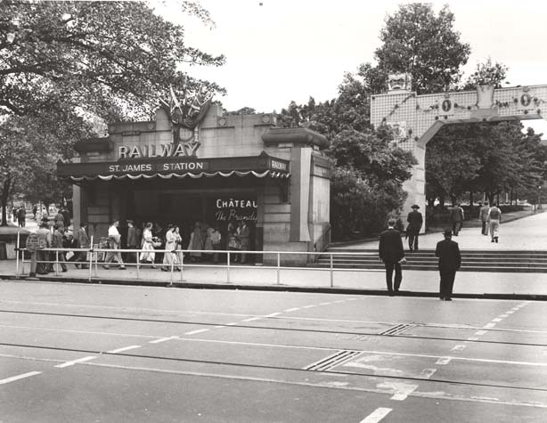 St James Railway Station decorated for the visit of Queen Elizabeth II and Prince Phillip - Elizabeth St entrance Dated: possibly 05/02/1954 Digital ID: 17420_a014_a014000159 Rights: We'd love to hear from you if you use our photos. Many other photos in our collection are available to view and browse on our website using Photo Investigator.